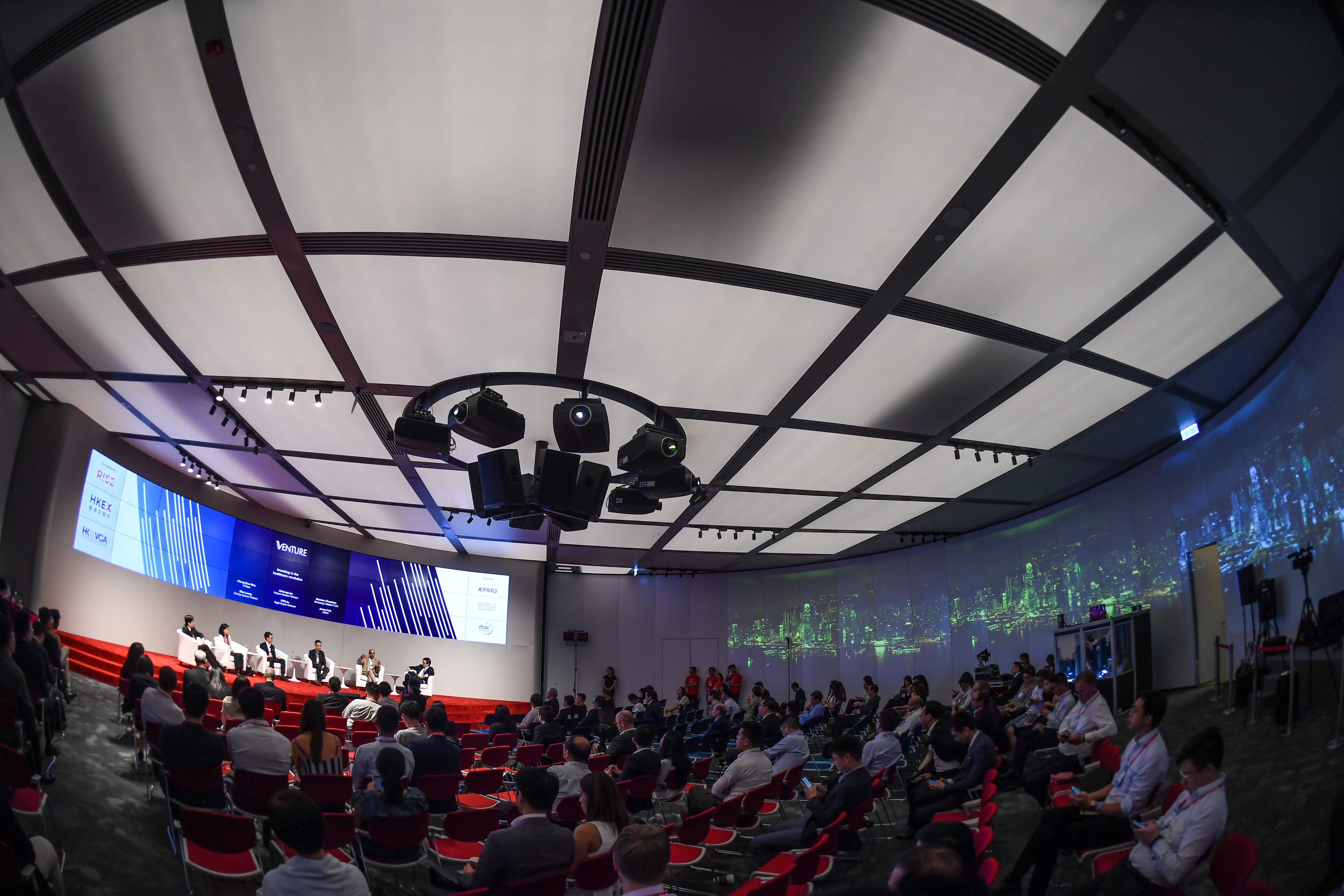 9 July 2018; Attendees during Venture prior to the start of RISE 2018 at HKEx in Hong Kong. Photo by Stephen McCarthy / RISE via Sportsfile